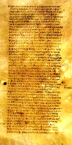 introduction to Sirach, codex sinaiticus